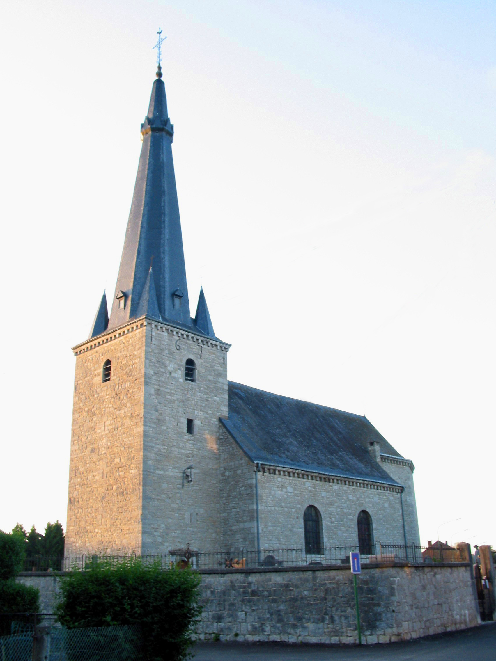 Melreux (Belgium), the Saint Peter’s church (XVIIth century).